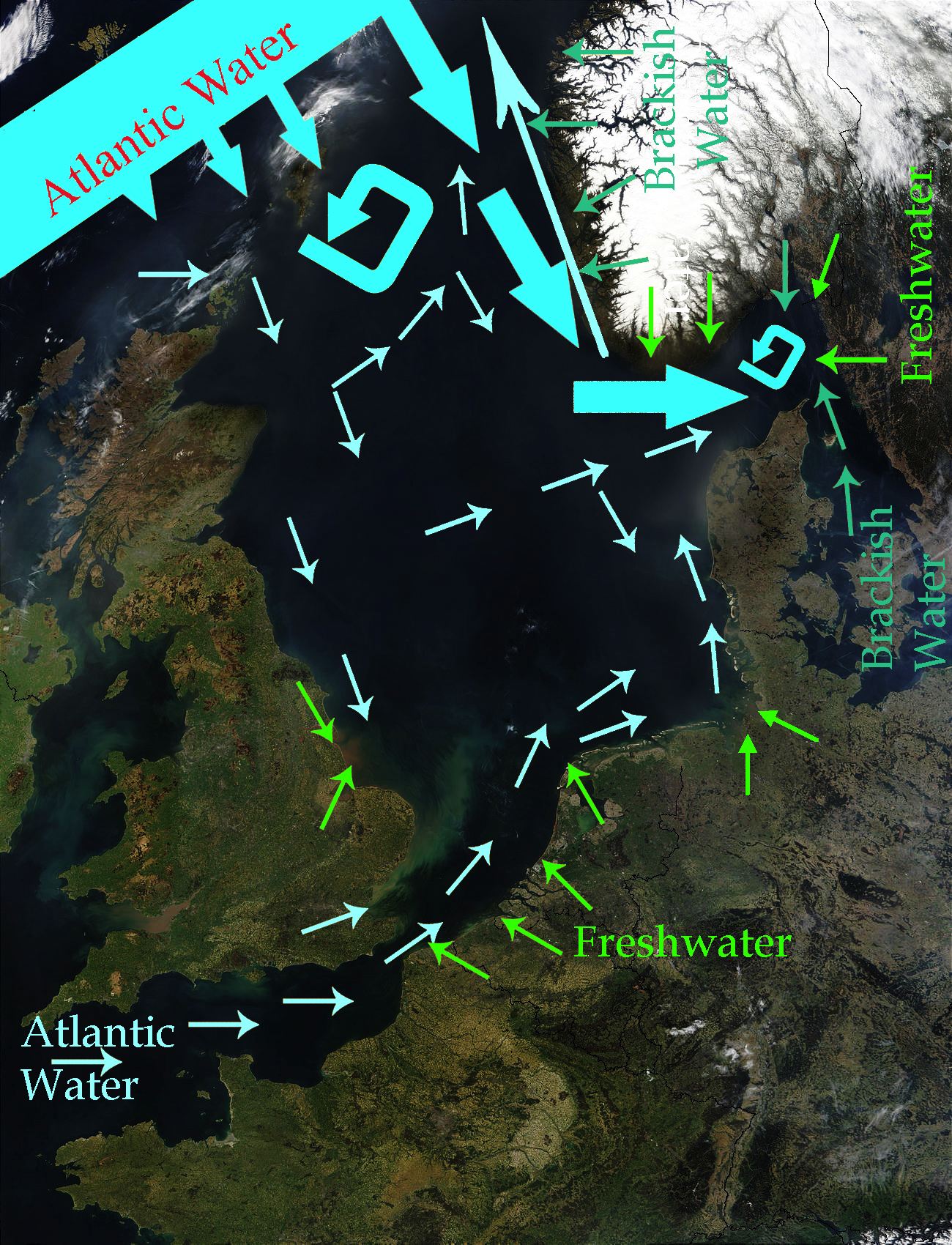 North Sea Map derived from NASA satellite image. This image depicts the currents in the North Sea. The intensive light blue broad arrows show the current and amount of flow from the Atlantic Ocean entering the northern area of the North Sea The smaller pale yellow arrows represent the current from the Atlantic Ocean entering through the English Channel. The bluish green arrows represent brackish water from fjords and the Baltic Sea. The green arrows represent freshwater from various rivers which drain land areas and discharge into the North Sea. Sources used to base this map upon were Safety at Sea currents and North Sea physiography (depth distribution and main currents) Guide to the Oceans By John Pernetta page 184 It would be nice to re-do this map with wiggly flowing arrows for the water currents.